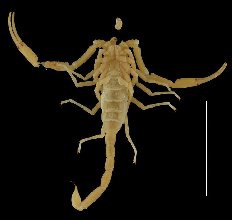 Vietbocap canhi female paratype, ventral aspect. Scale bar = 10 mm.